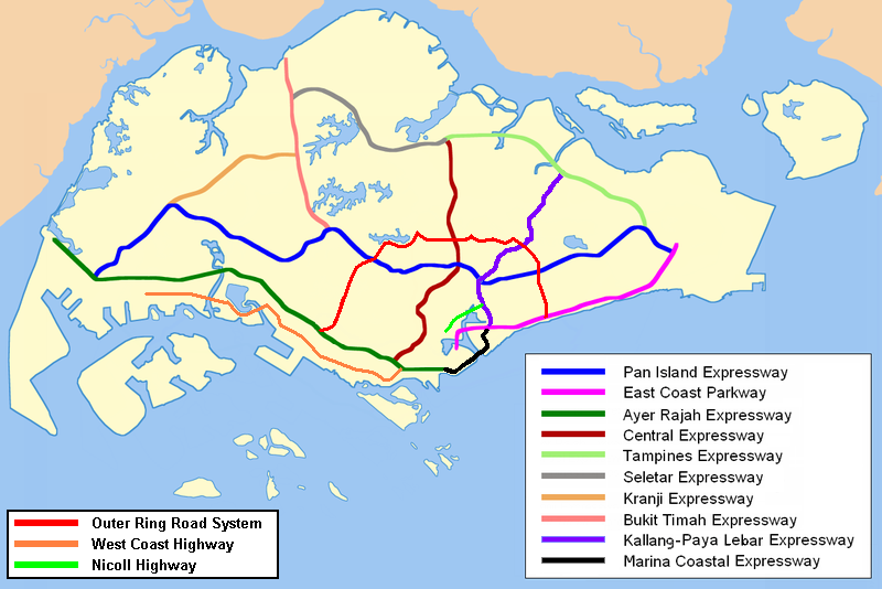 Map of the expressways and semi-expressways of Singapore